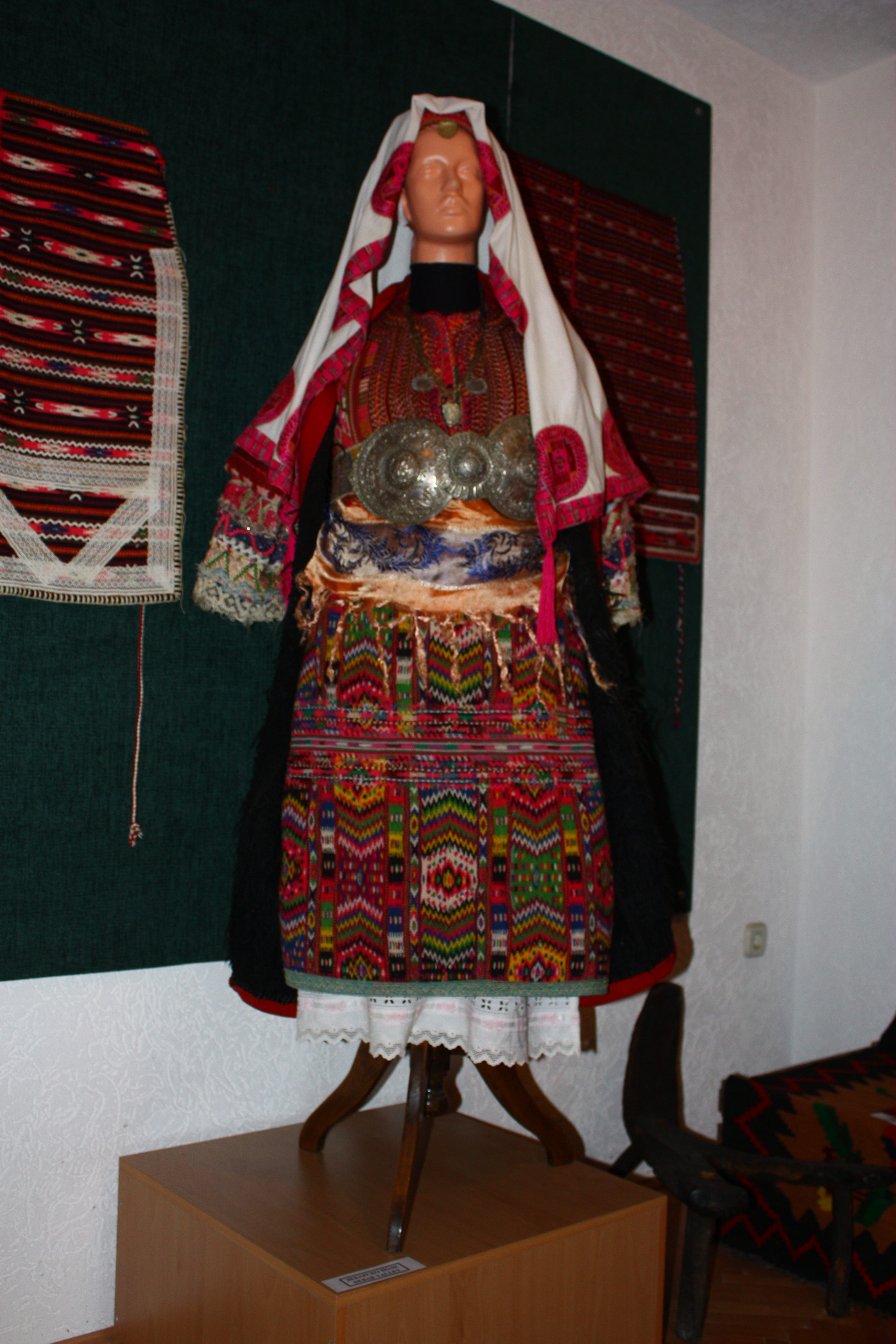 Ethnological Museum in Podmočani, Macedonia